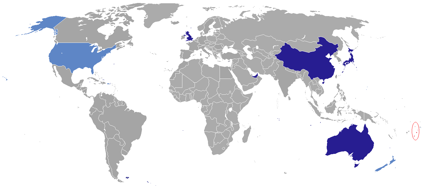 Map of Tongan diplomatic missions